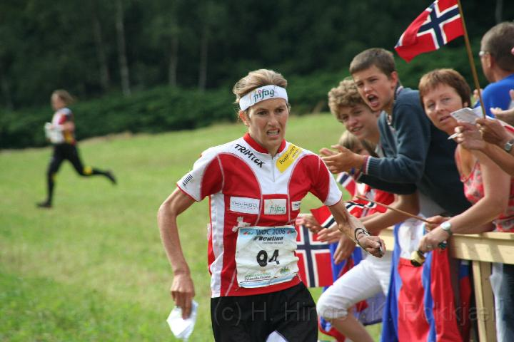 Simone Niggli-Luder at the World Orienteering Championships 2006 in Aarhus, Denmark.